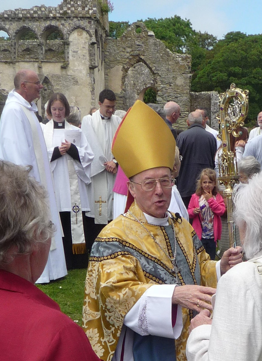 John Wyn Evans, Bishop of St David's with crozier in hand and radio mike on his lapel chats to members of the congregation after conducting an ordination ceremony in his cathedral. Behind him can be seen some of the new ordinands and the ruins of the splendid bishop's palace of some of his 127 predecessors with its characteristic chequerboard stone work.